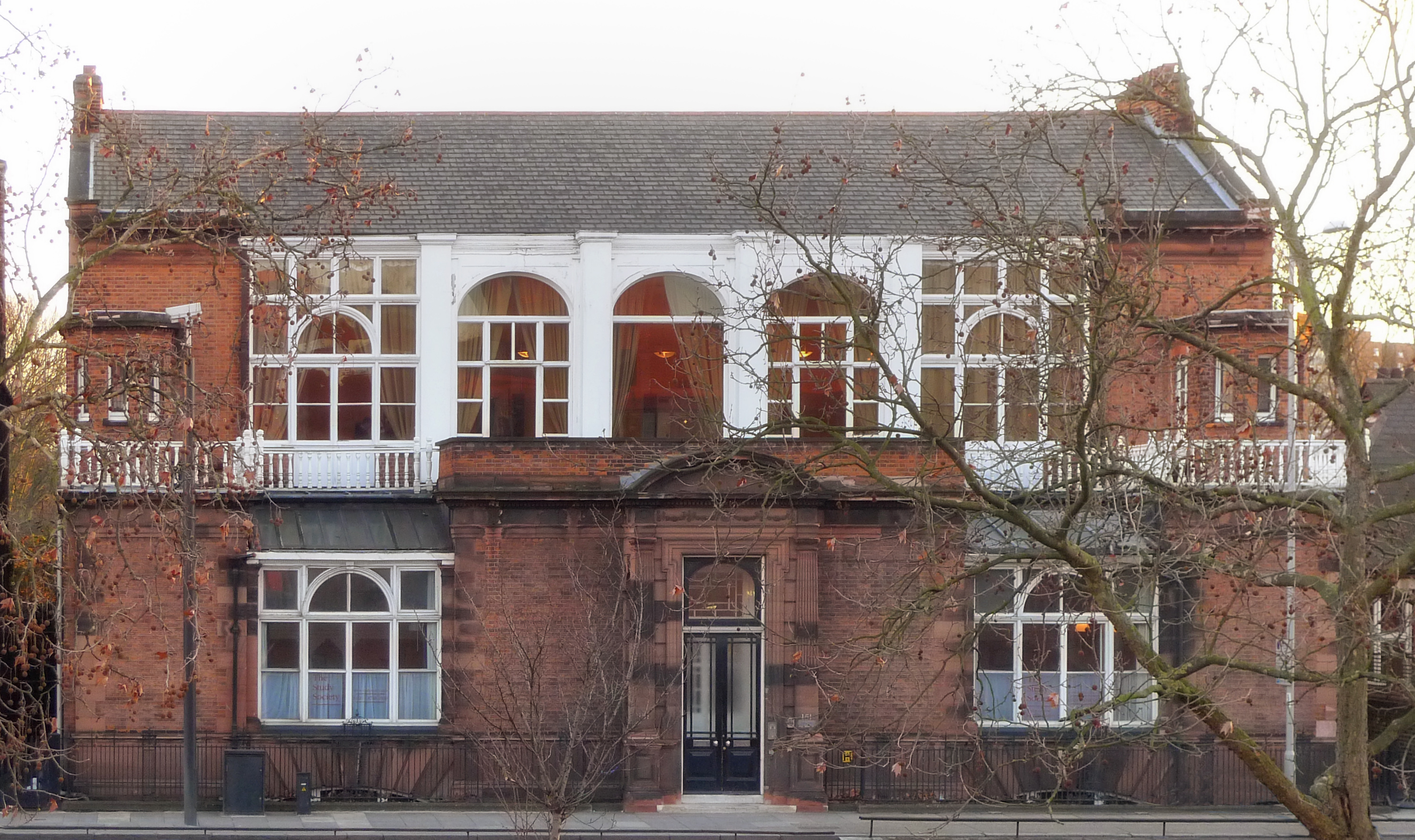 Colet House, 151 Talgarth Road, Barons Court, London